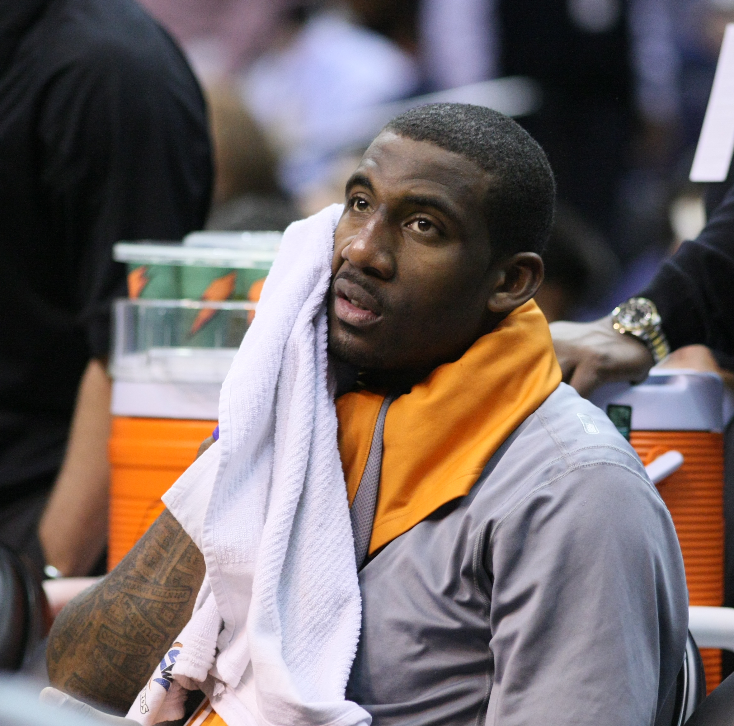 Amare Stoudemire playing with the Phoenix Suns